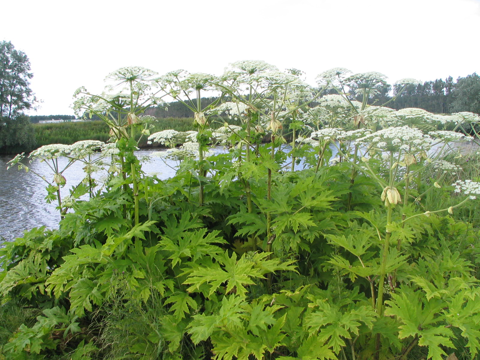 Giant Hogweed